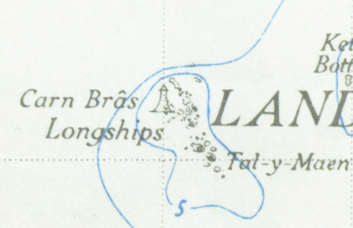 Map of Longships from 1946. Scale 1 inch to the mile 600DPI Sheet 189